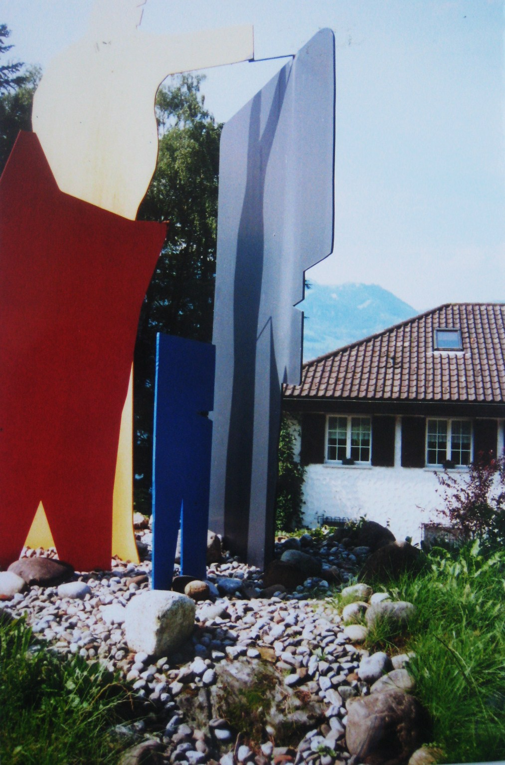 Mafonso - La scultura realizzata per l'Architetto Meinerad Camenzind, ed installata nella cittadina di Gersau (Sizzera) , Anno 1994.